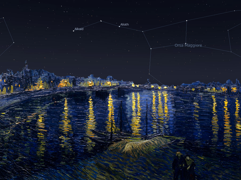 Into 25th september 1888 at 22;30